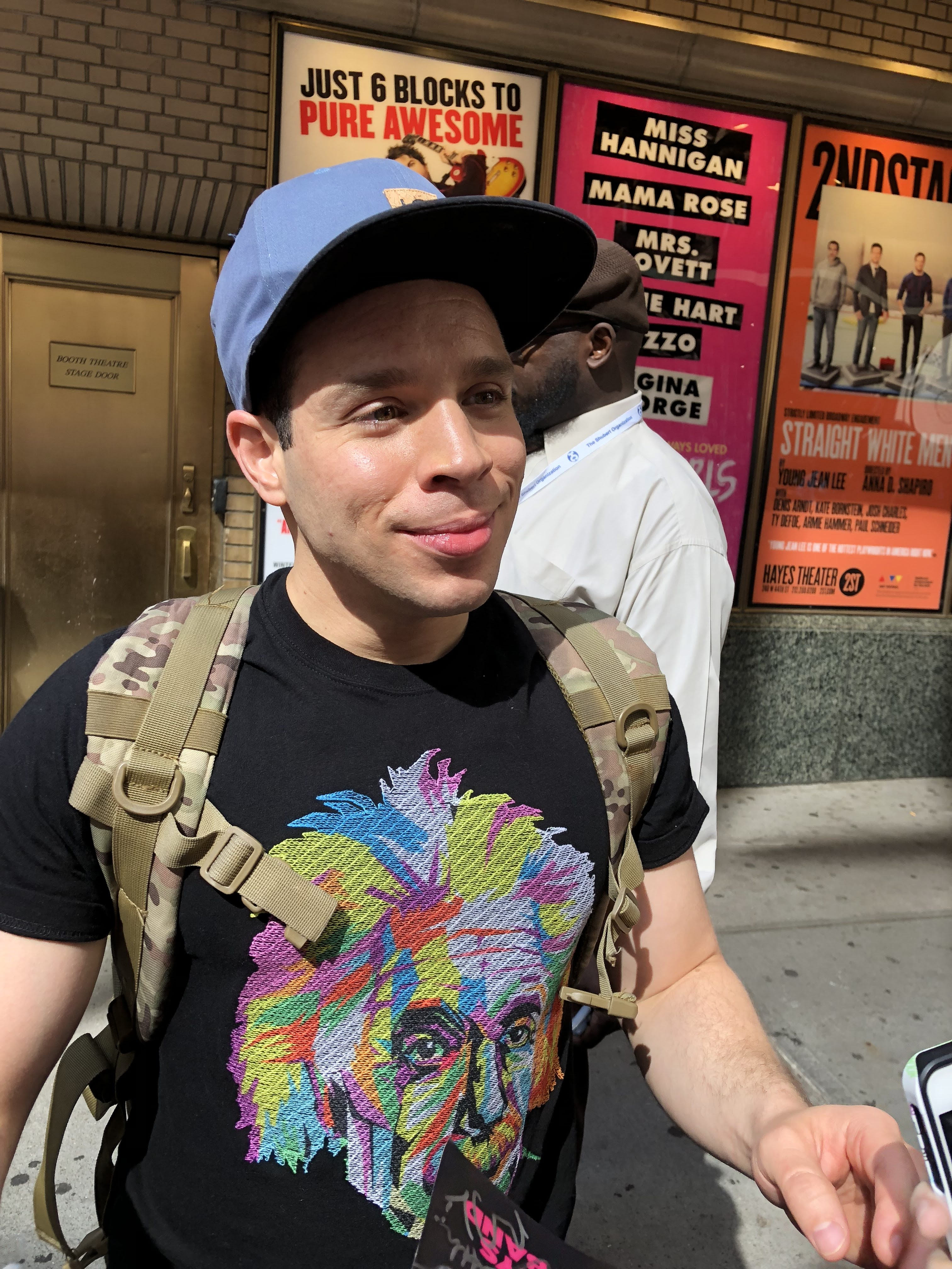 Picture of Robin De Jesus